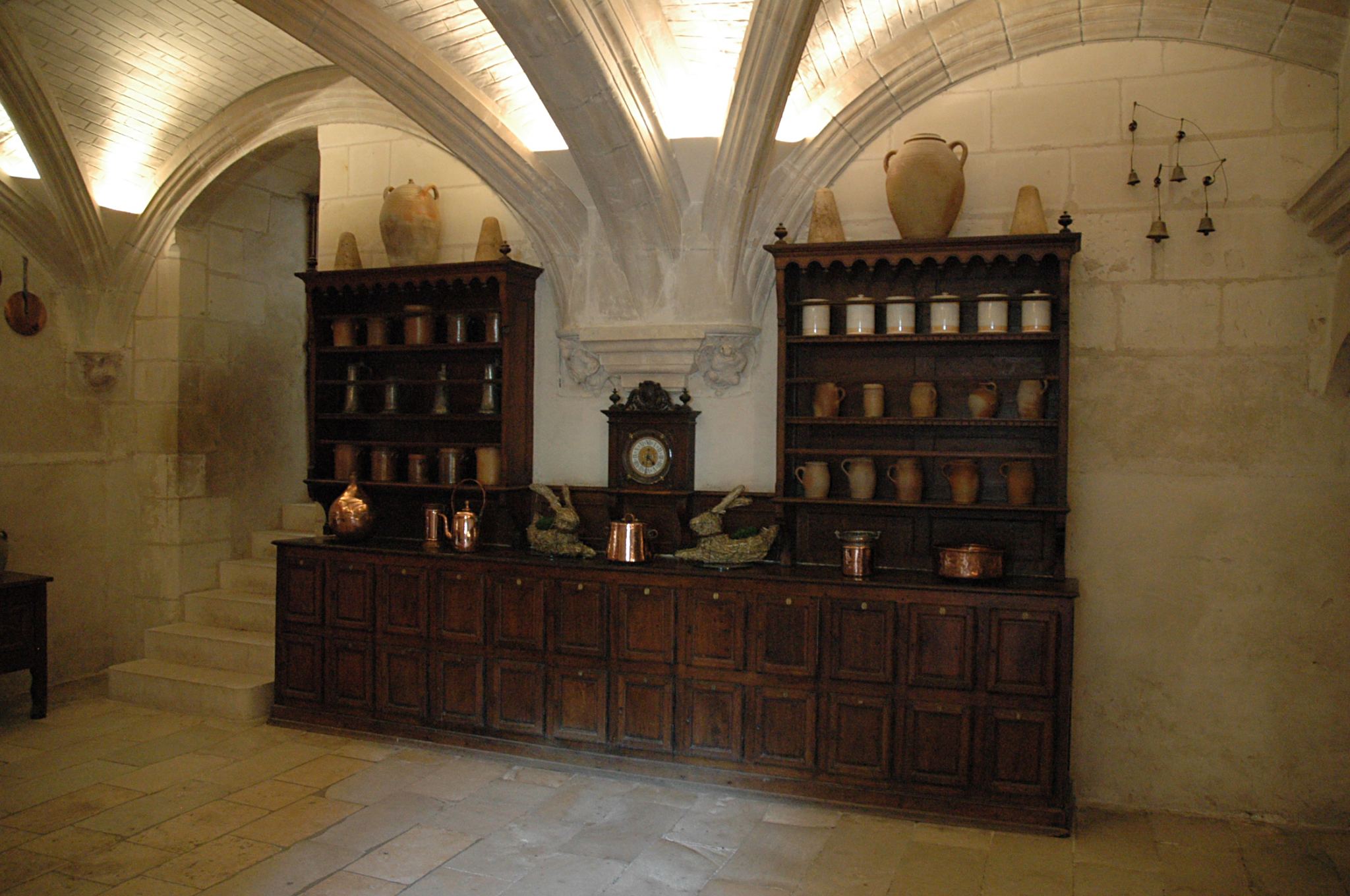 Château de Chenonceau, sideboard in the Office